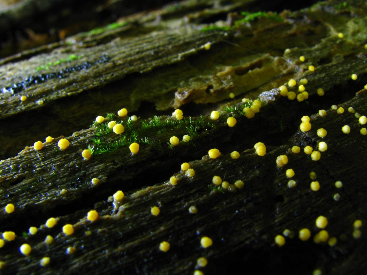 Hypocrea citrina (Pers.) Fr. Image location: Strouds Run State Park, Athens, Ohio, USA Recognized by sight For more information about this, see the observation page at Mushroom Observer.